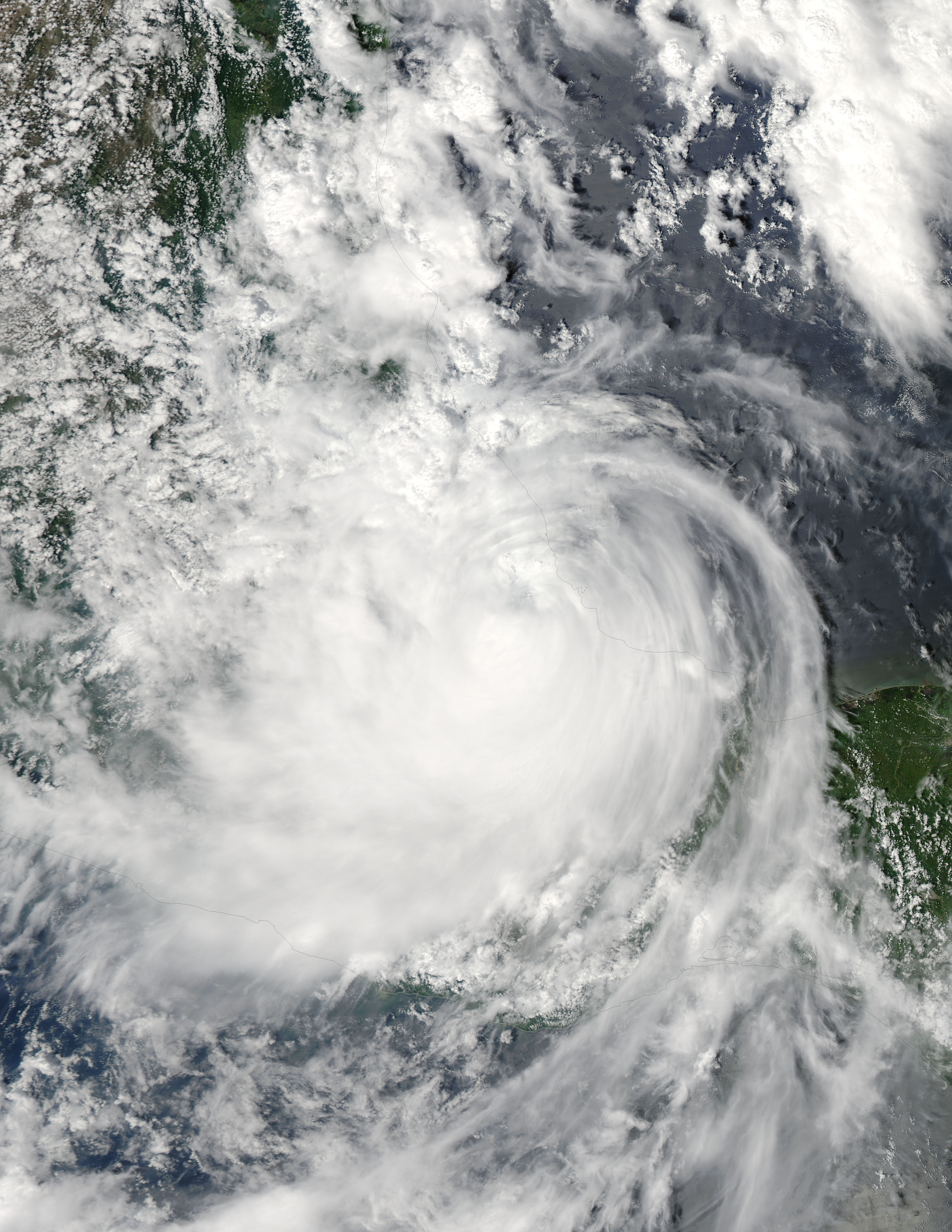 Hurricane Karl inland Mexico.